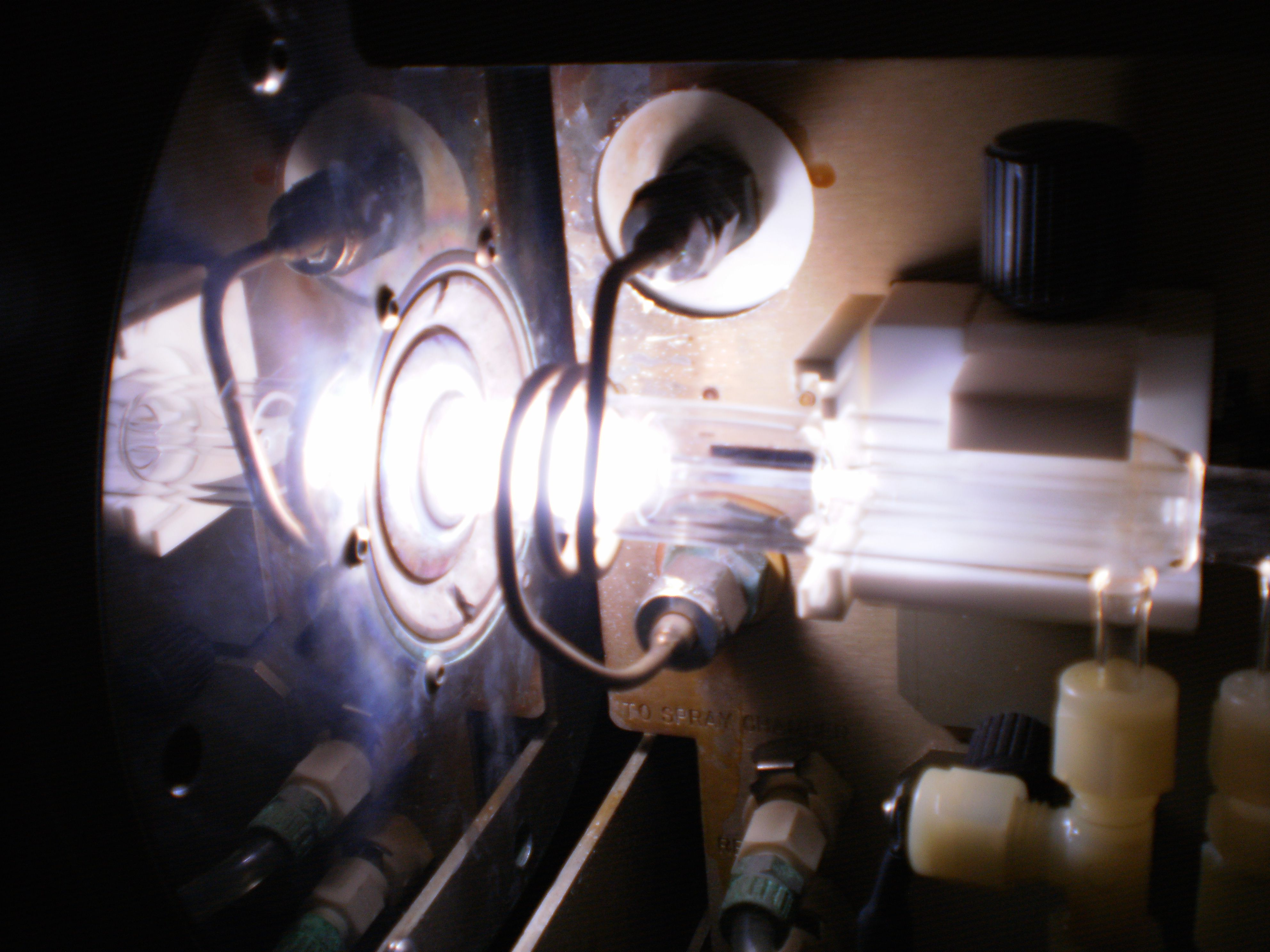 ICP-MS by Thermo